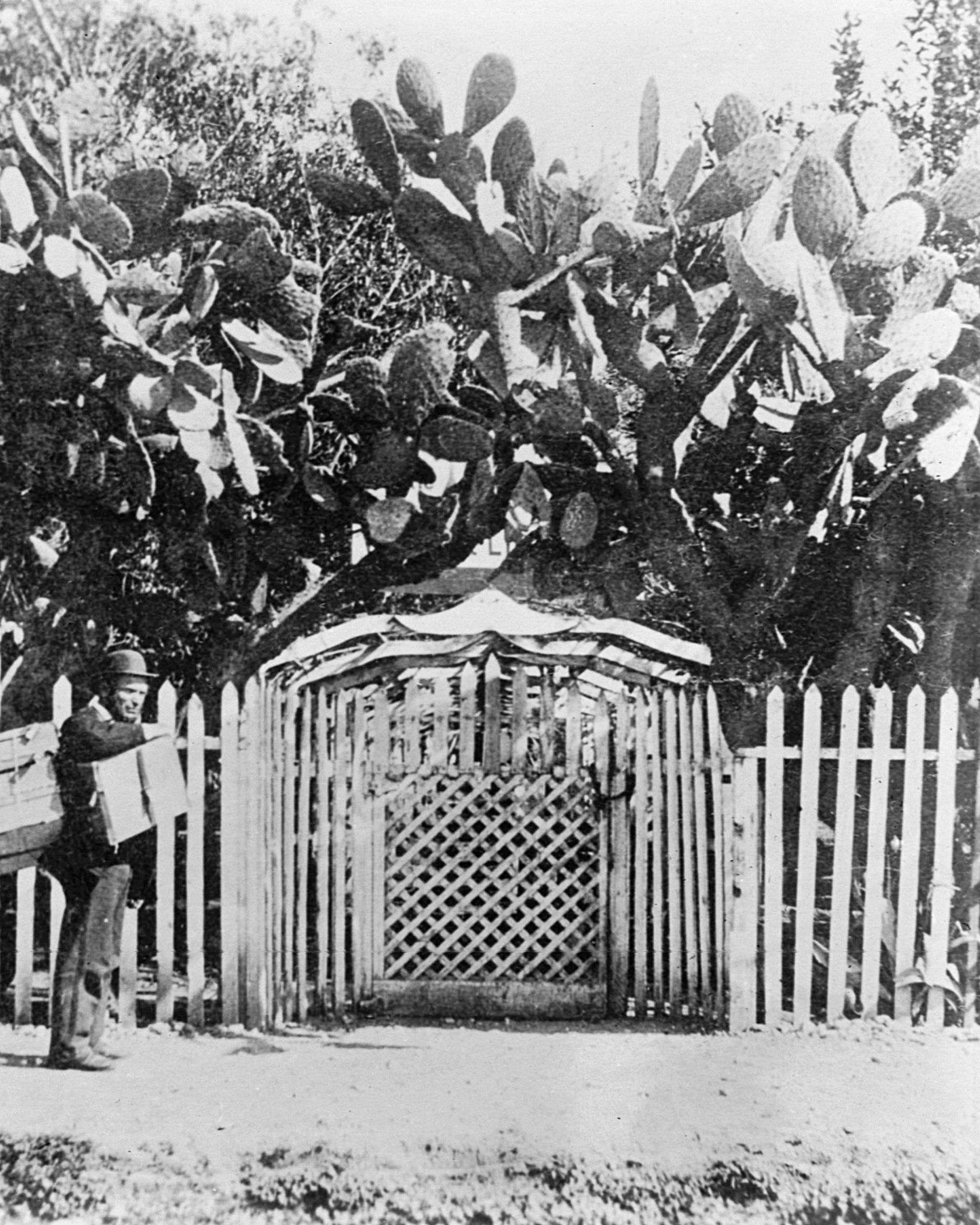 Stereograph of the Spring Street entrance (near Third Street) to the Round House (site of the Lankershim Building), Los Angeles, with large cactus behind a wooden fence, ca.1885. A man wearing a hat and carrying a large wooden box on his back and another parcel stands outside the gate. The image appears to be doubled, and may therefore be a stereoscope.